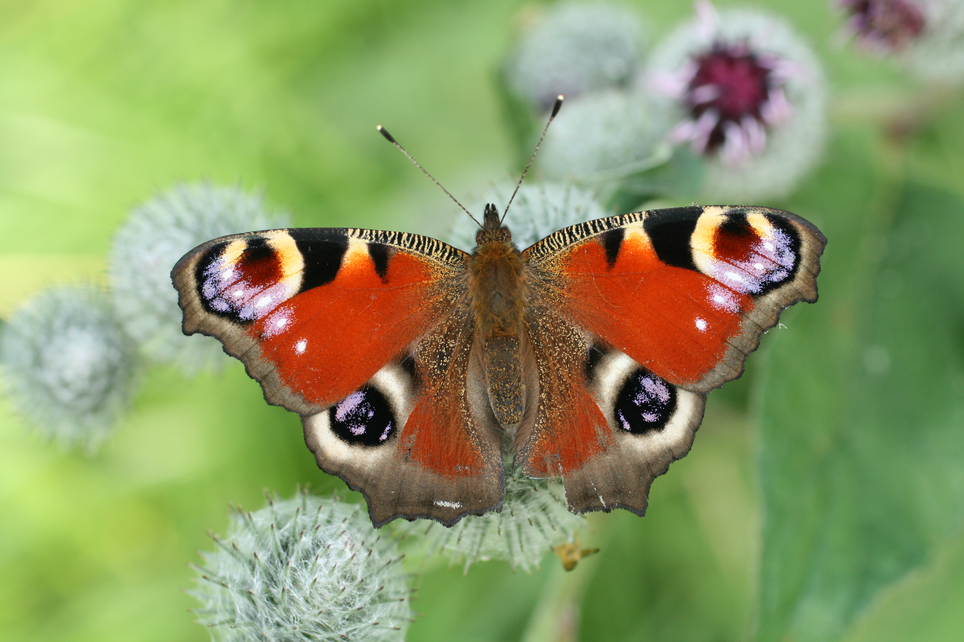 Inachis io on Arctium tomentosum seen on the meadow close to Ugglevikskällan in Lill-Jansskogen, Stockholm, Sweden.